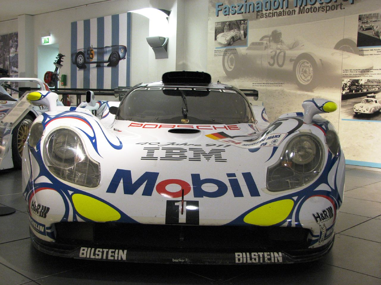 Porsche Museum Native namePorsche-MuseumLocationStuttgartCoordinates48° 50′ 07″ N, 9° 09′ 06″ E Established1976 (old museum) 2009 (new museum)Web page control : Q328623 VIAF: 138511768 GND: 2087859-X SUDOC: 155641123 A Porsche 911 GT1 on display at Porsche's Stuttgart Museum